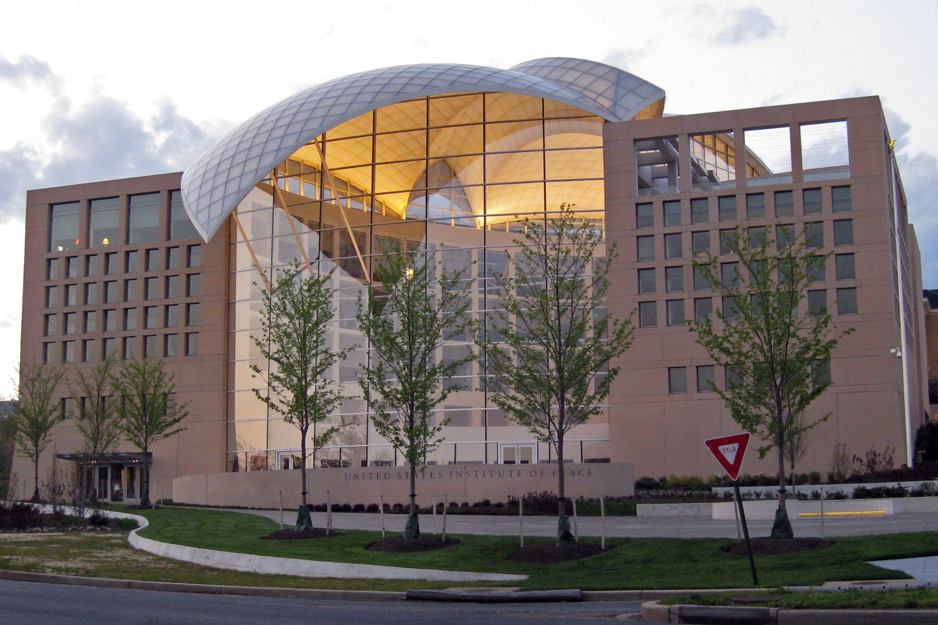 United States Institute of Peace Headquarters located at 2301 Constitution Avenue NW in the Foggy Bottom neighborhood of Washington, D.C.